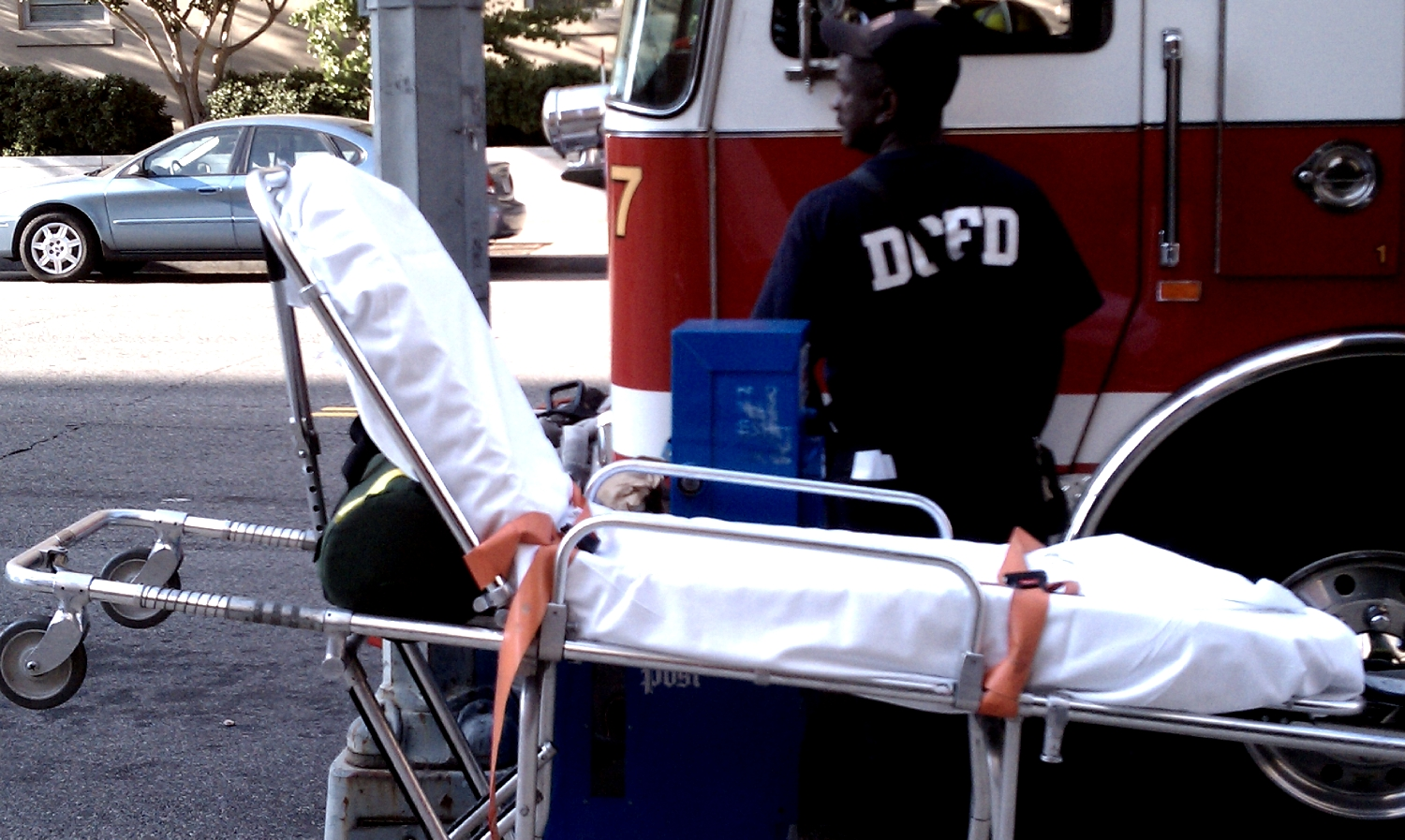 A firefighter with the District of Columbia Fire and Emergency Medical Services Department (DCFEMS) responding to an emergency call outside the L'Enfant Plaza hotel and office building complex in Washington, D.C., in the United States. The firefighter is depicted with a stretcher and other emergency medical equipment from a DCFEMS ambulance, which is nearby.